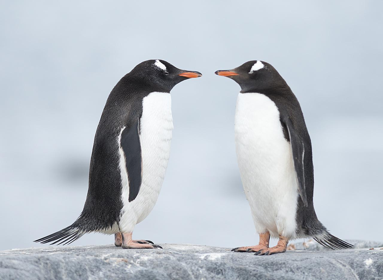 Antarctica 2013: Journey to the Crystal Desert